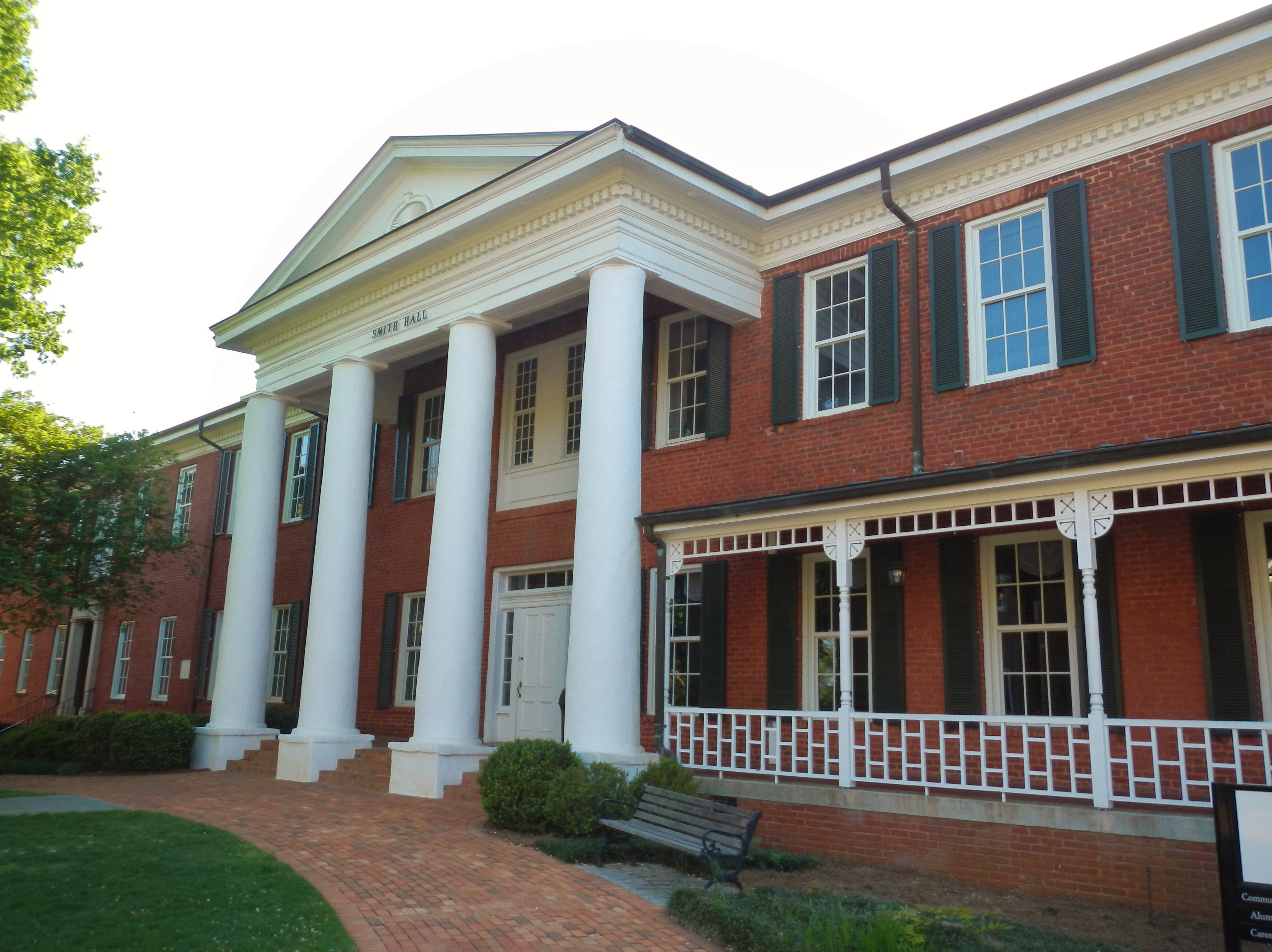 This is a photo of College Home/Smith Hall located on the campus of LaGrange College in LaGrange, GA. It was added to the NRHP on August 26, 1982.